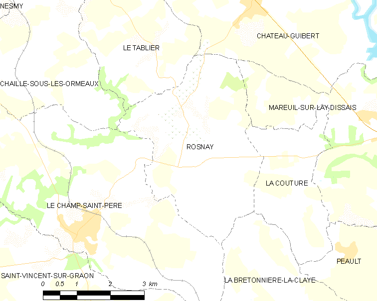 Map of French municipality Rosnay